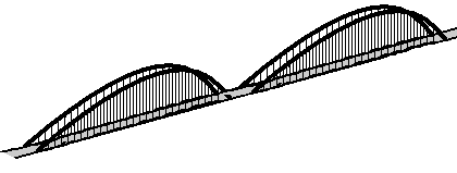 Arch_bridge#Suspended_deck_arch_bridge